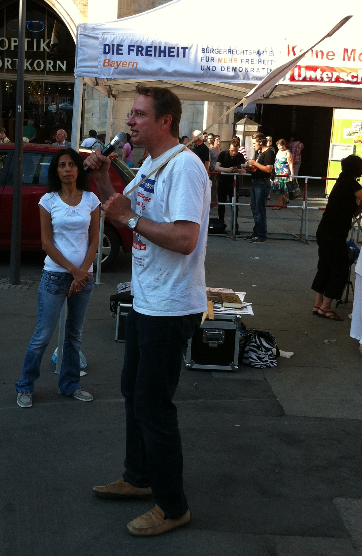 Michael Stürzenberger giving a speeach at Marienplatz, Munich, against the building of the centre for islam in Europe - Munich (Zentrum für Islam in Europa, ZIE-M) on 07/16/2013.